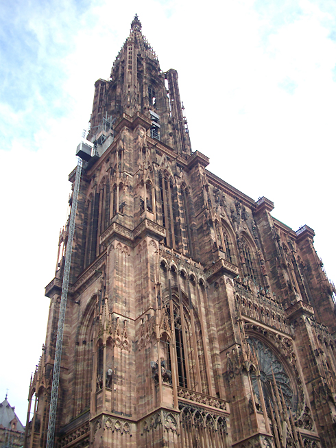 Strasbourg Cathedral